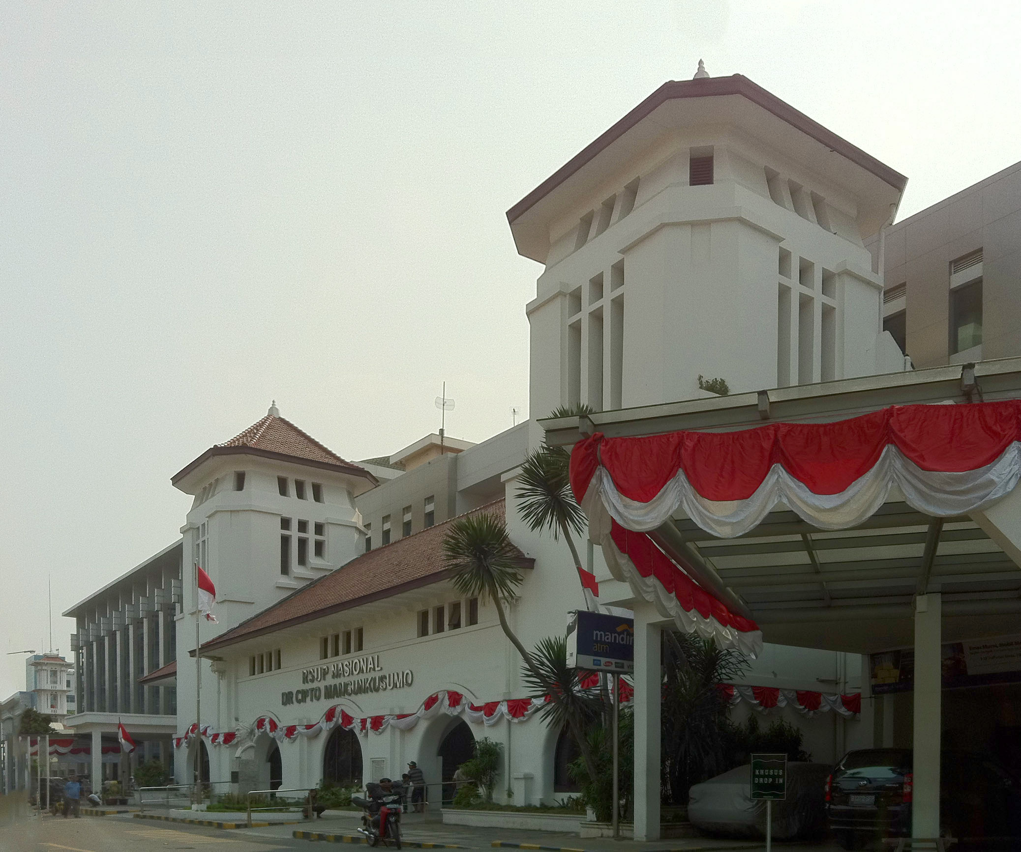 Cipto Mangunkusumo hospital, formerly known as Het Centrale Burgerlijke Hospitaal